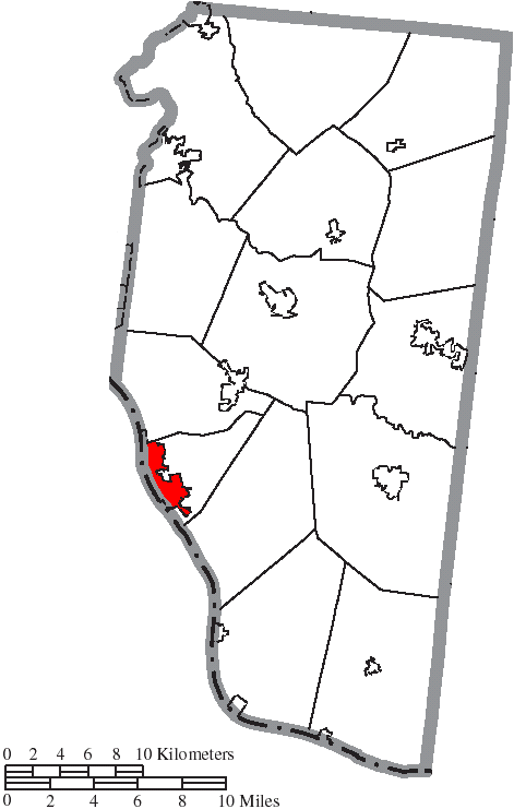 Map of the municipal and township boundaries of Clermont County, Ohio, United States, as of the 2000 census, with the location of the village of New Richmond highlighted. Township borders are shown only in unincorporated areas in order to differentiate incorporated and unincorporated areas more clearly.